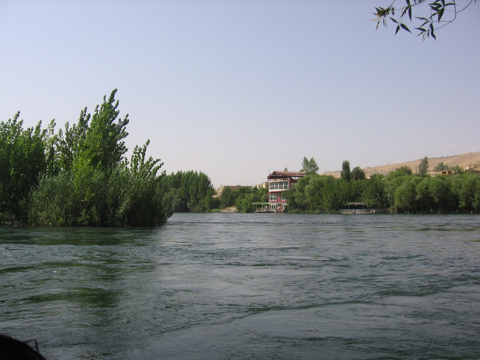 Lake Dukan, Iraq